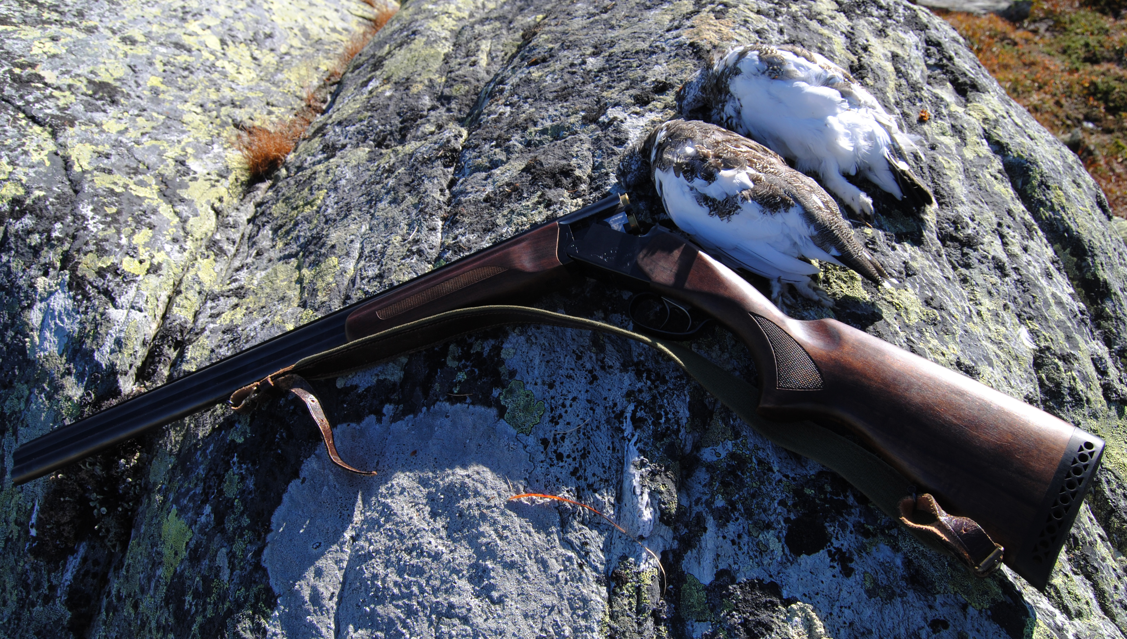 Grouse Hunting, Nordfjelli, Voss, Norway in 2010.